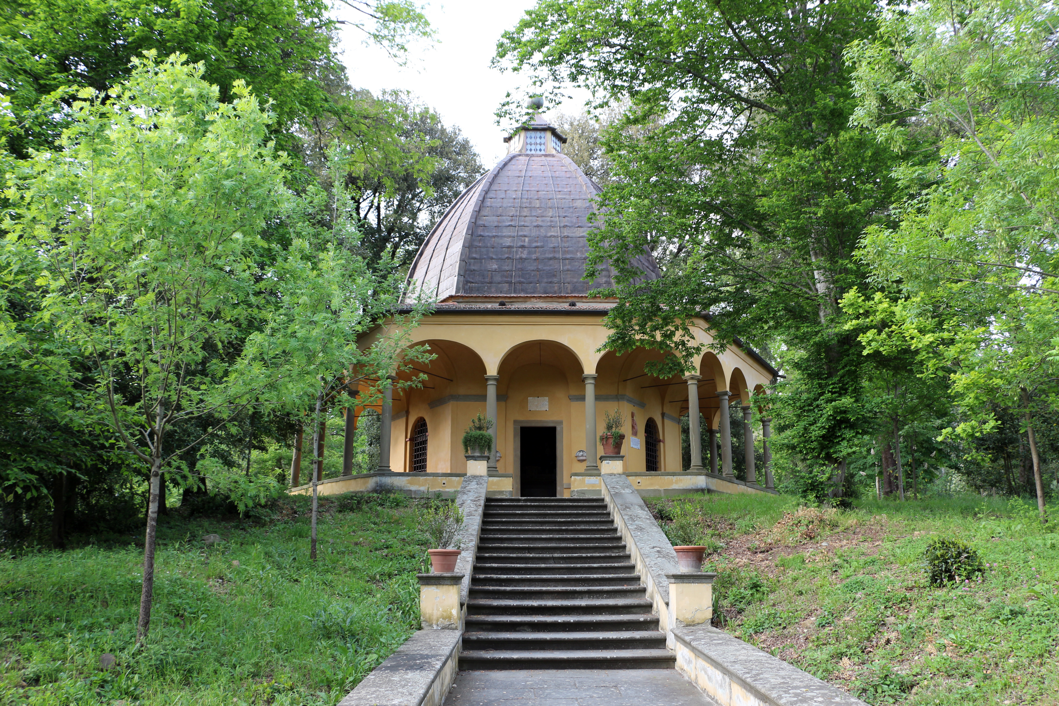 Villa Demidoff (Pratolino) - Chapel